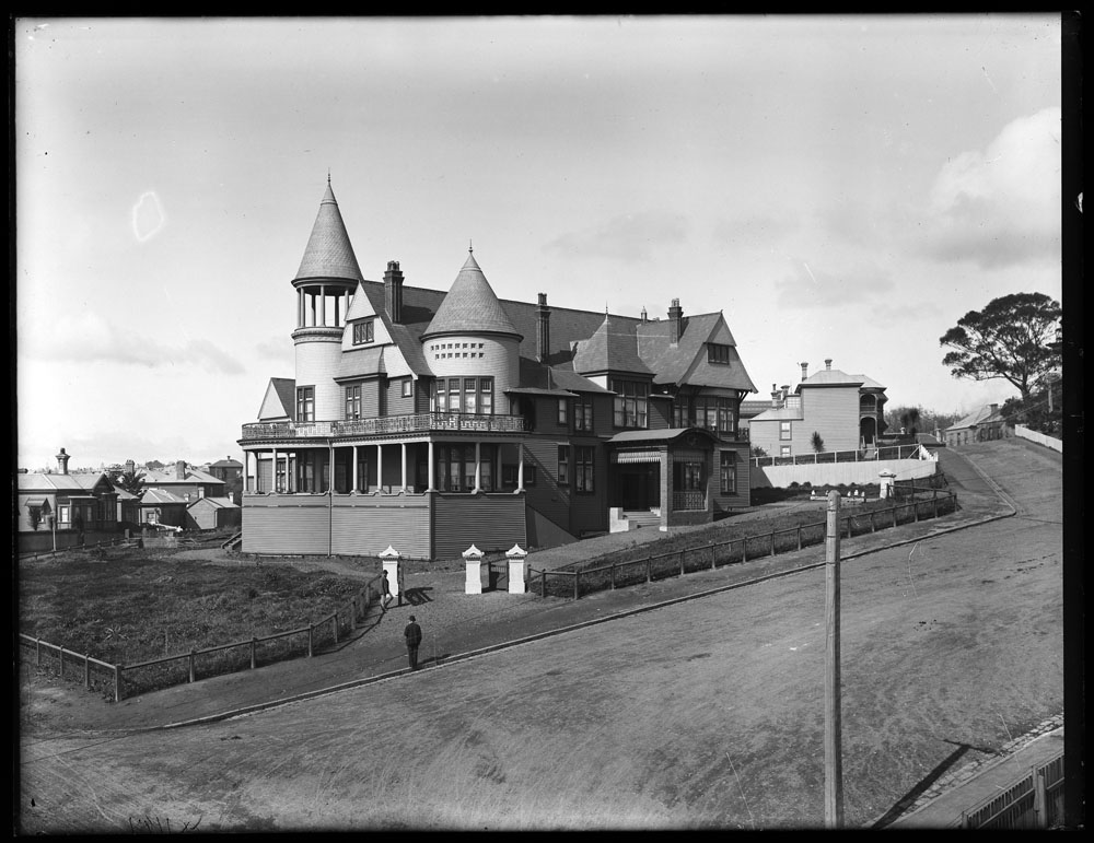 Old photograph of Admiralty House, Auckland; Sir George Grey Special Collections, Auckland Libraries, 1-W1148.